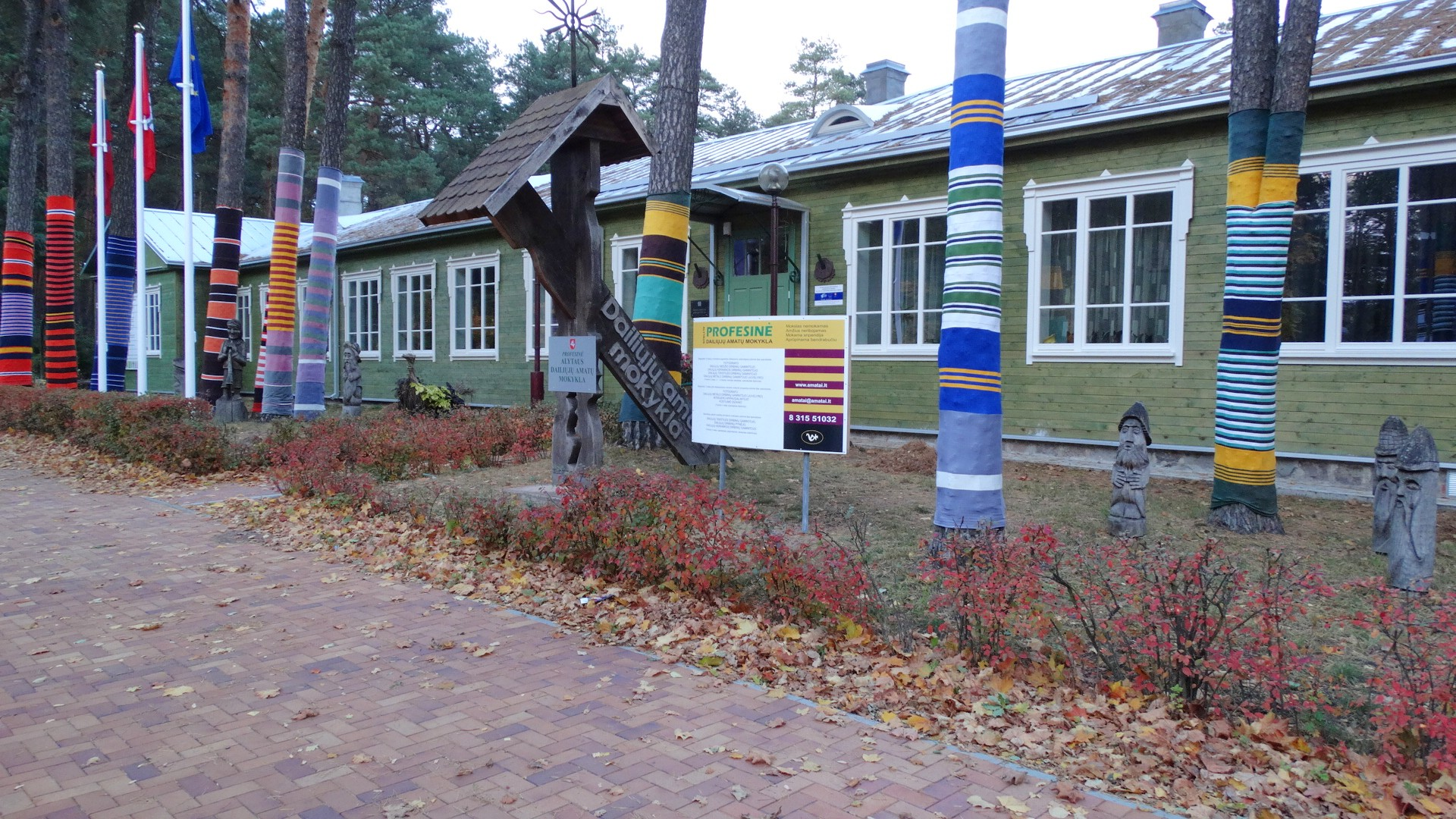 Fine Crafts School, Alytus Lithuania